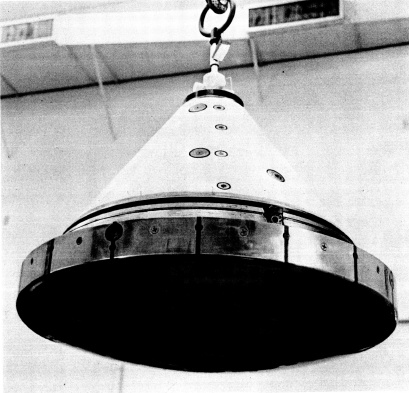 FIRE (Flight Investigation of the Reentry Environment) project Reentry Package.